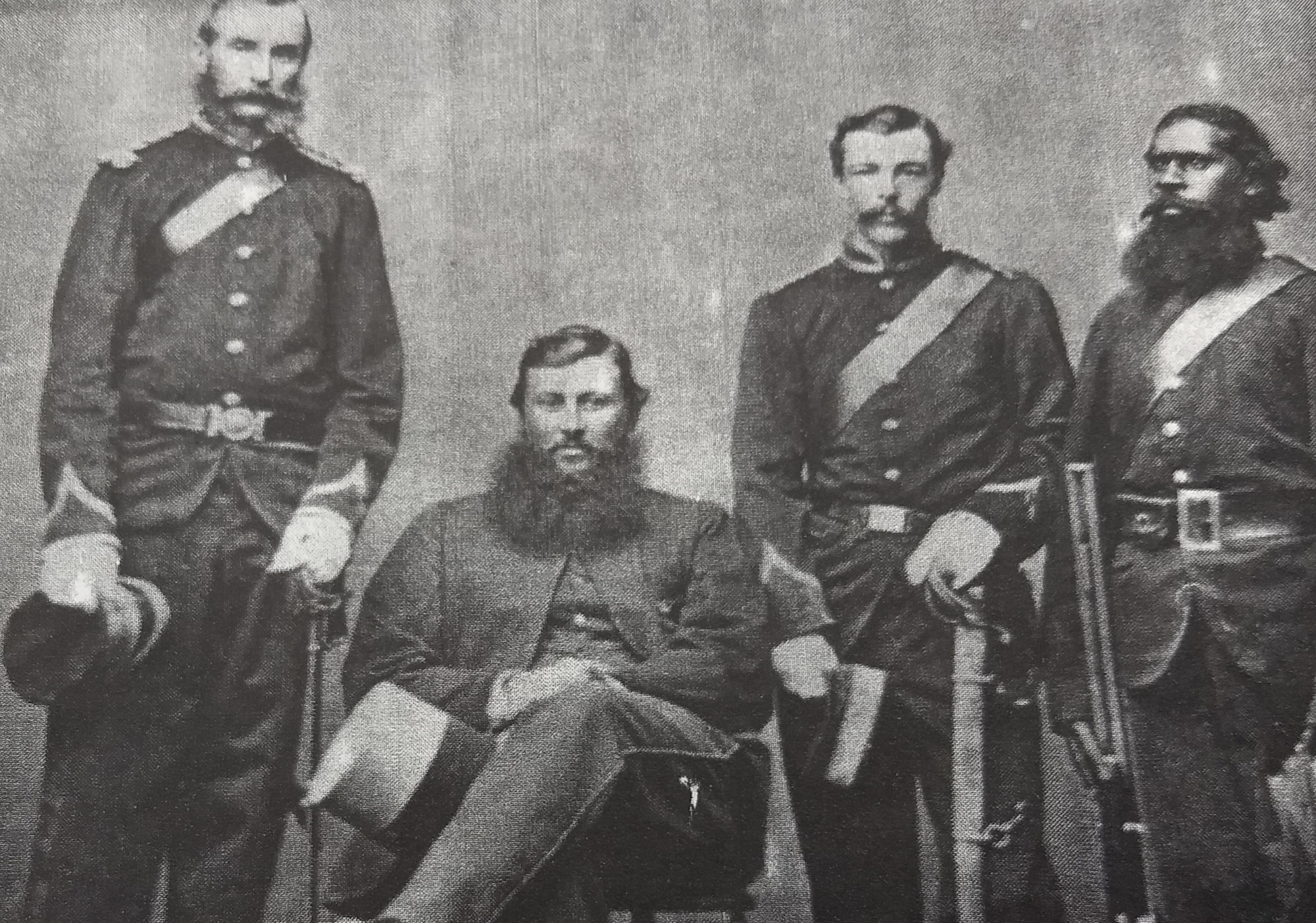 Photo of Native Police in Queensland with Inspector Marlowe and George Murray